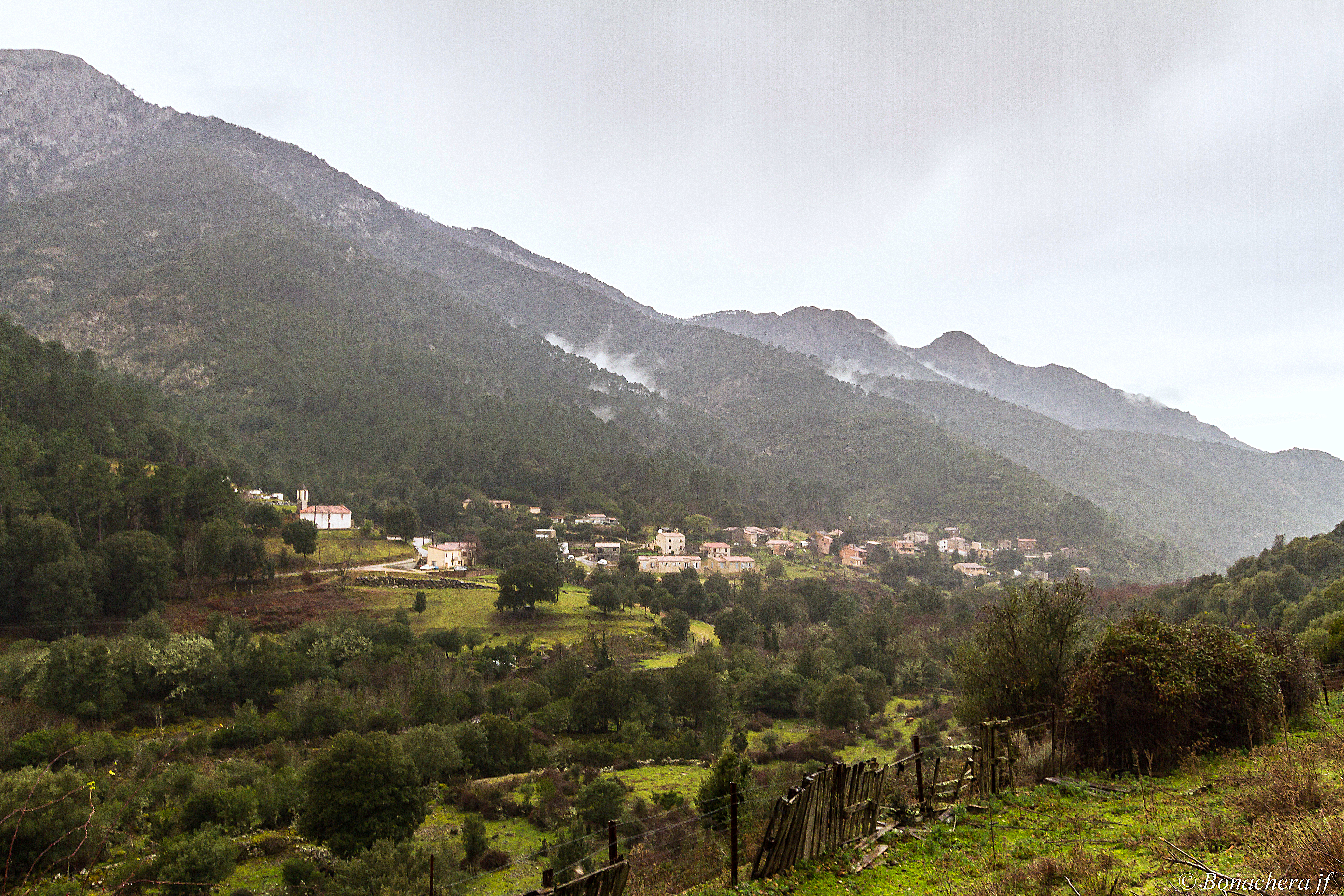 Bardiana